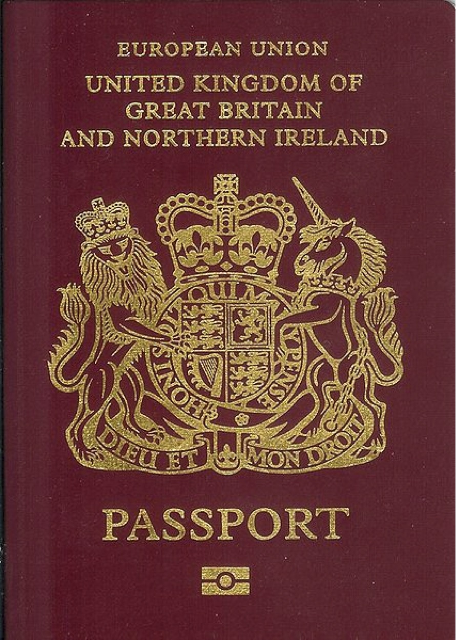 Front cover of a British biometric passport